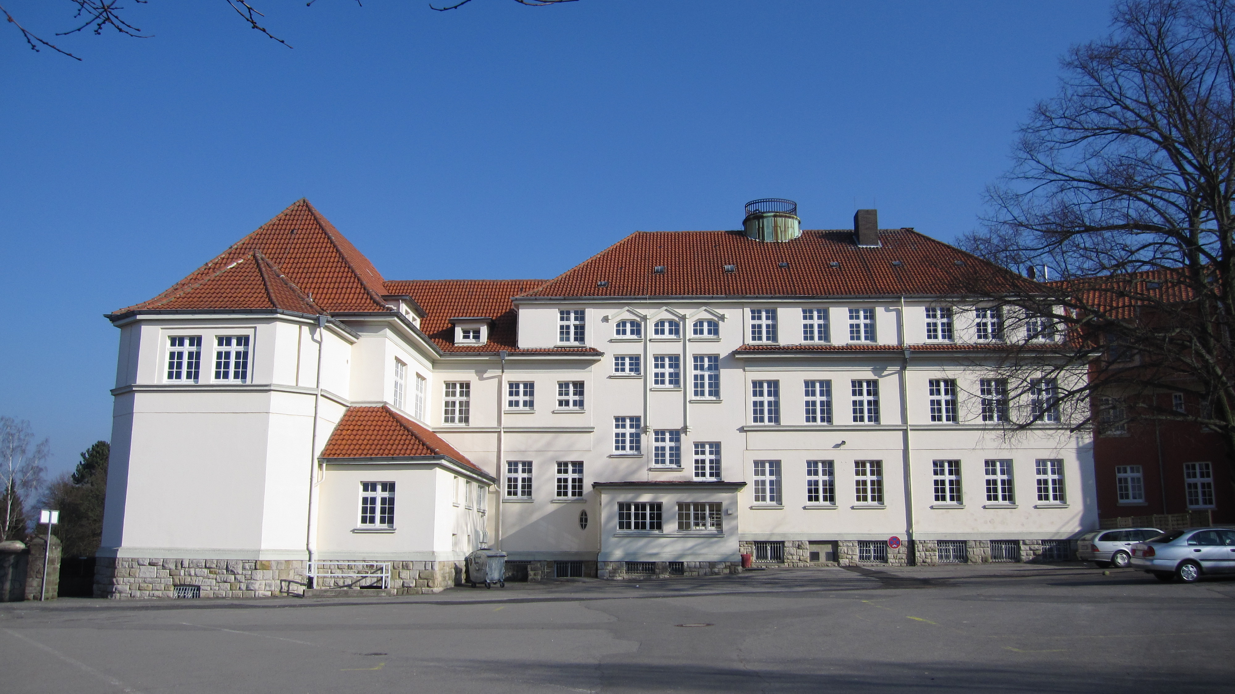 The old building of Hüffertgymnasium Warburg, a secondary school in Warburg, North Rhine-Westphalia, Germany.